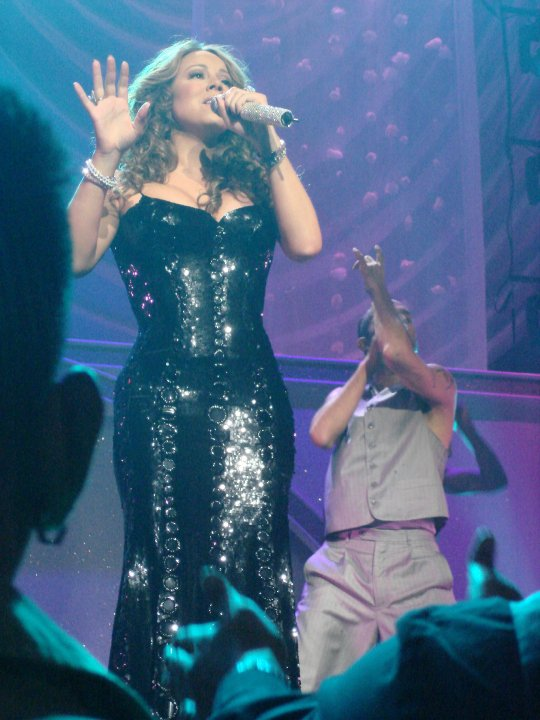 Mariah Carey performing live in Las Vegas